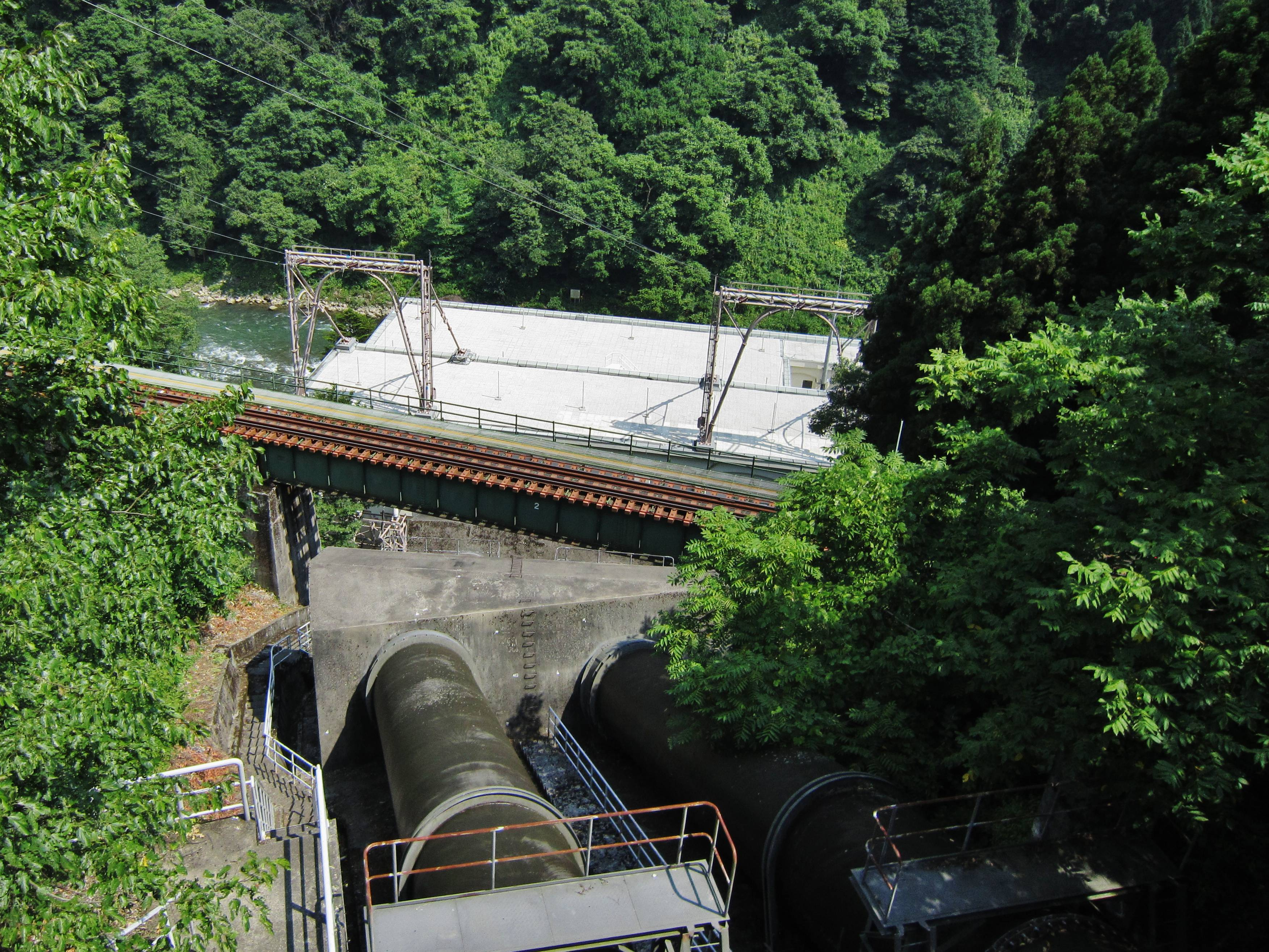 Kanidera hydroelectric power station.